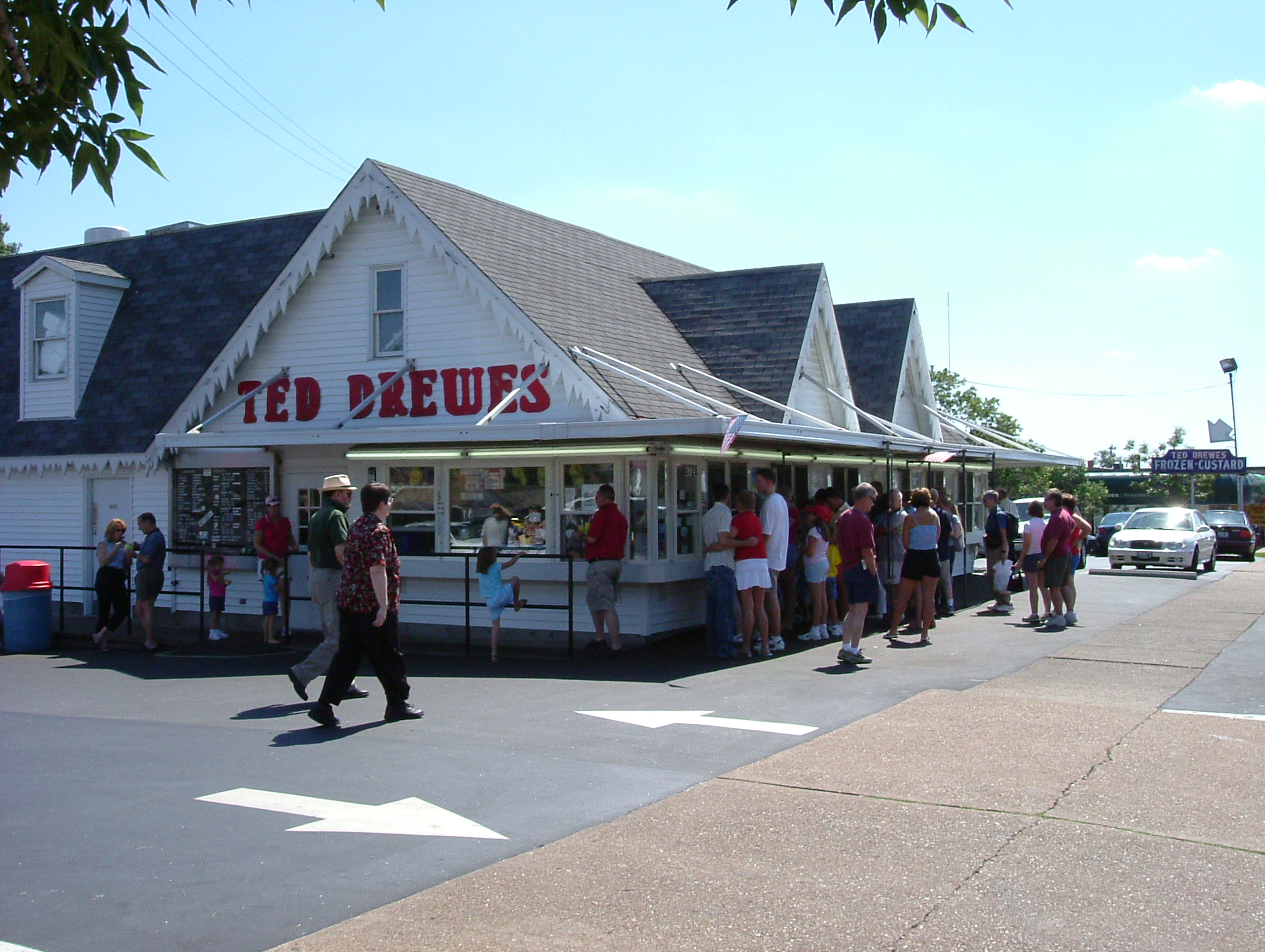 Ted Drewes Frozen Custard in Saint Louis, Missouri. This image was created by Alexander Smith on 7 August, 2004.